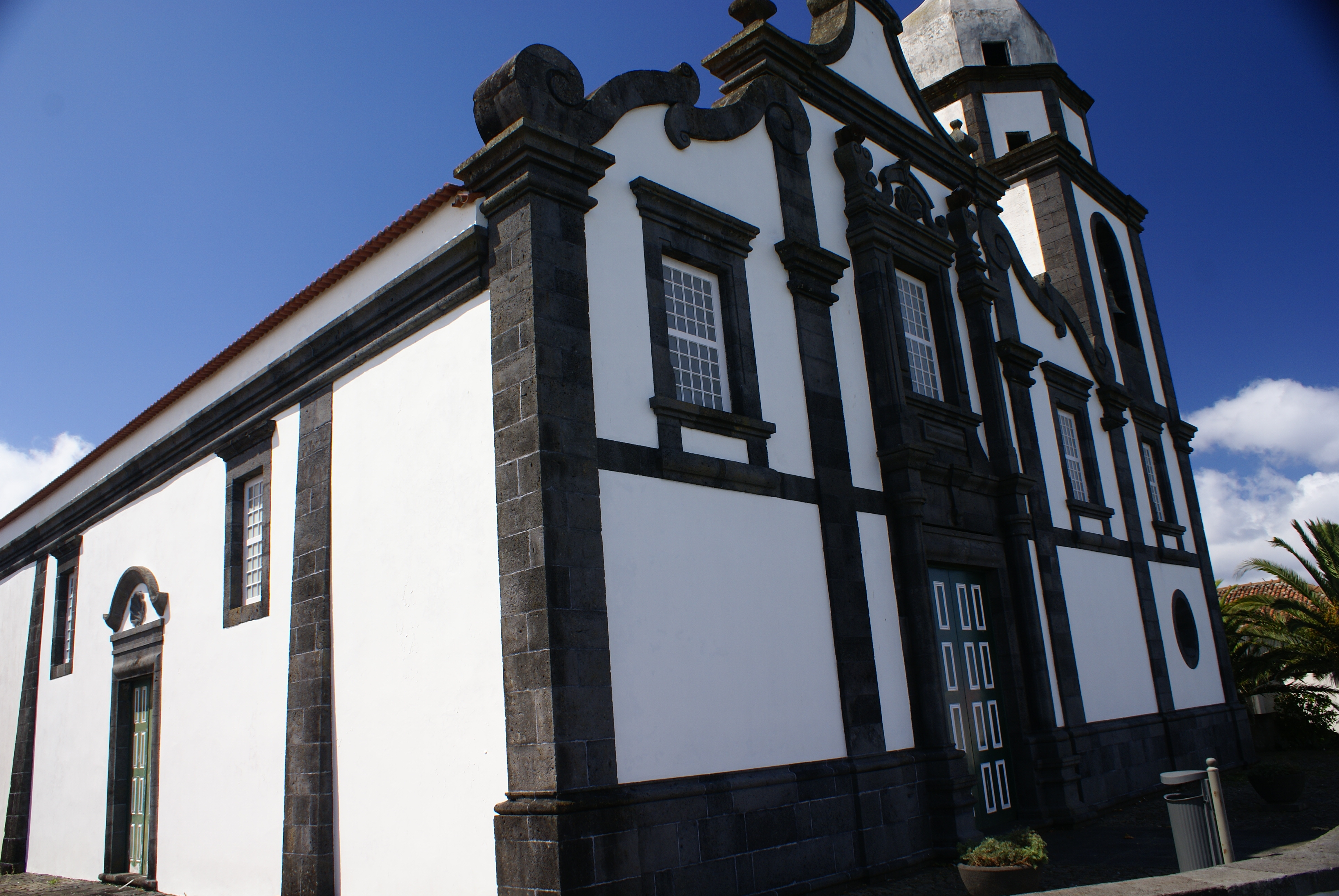 Igreja de Nossa Senhora da Piedade, concelho das Lajes do Pico, ilha do Pico, Açores, Portugal